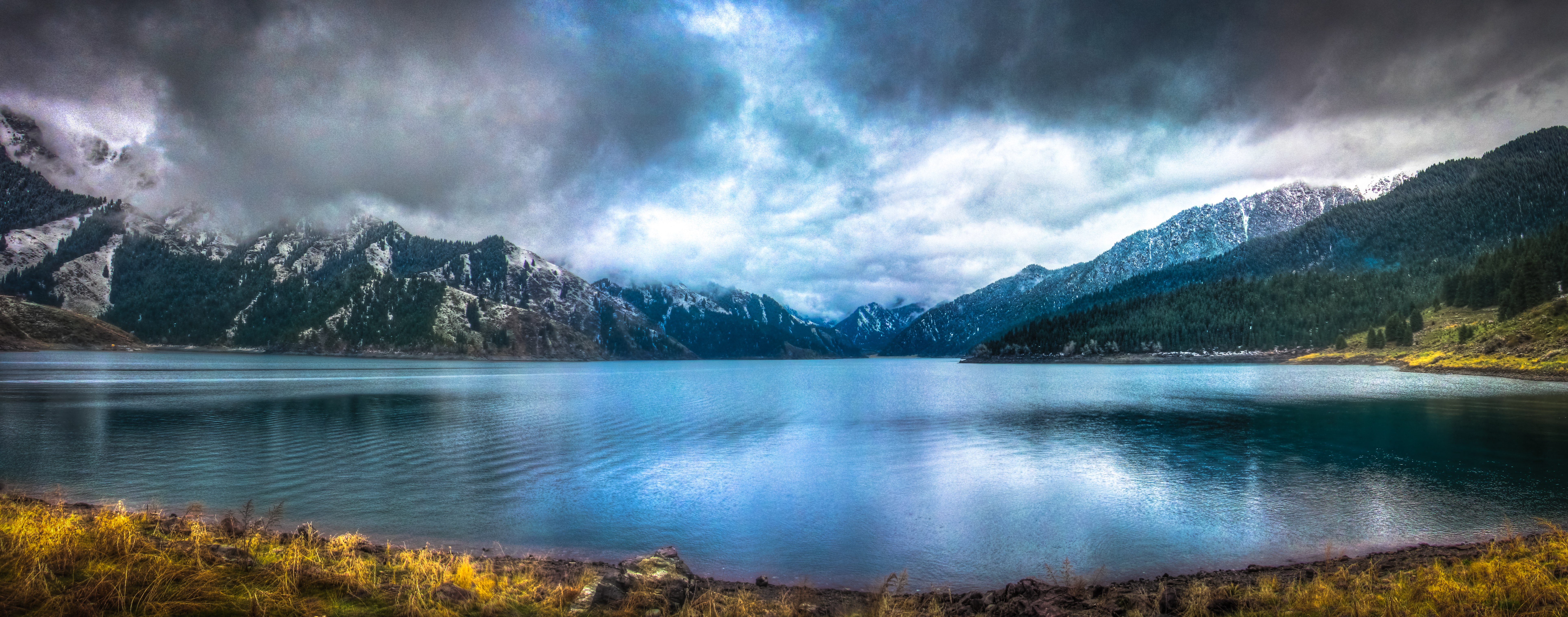 Tian Chi